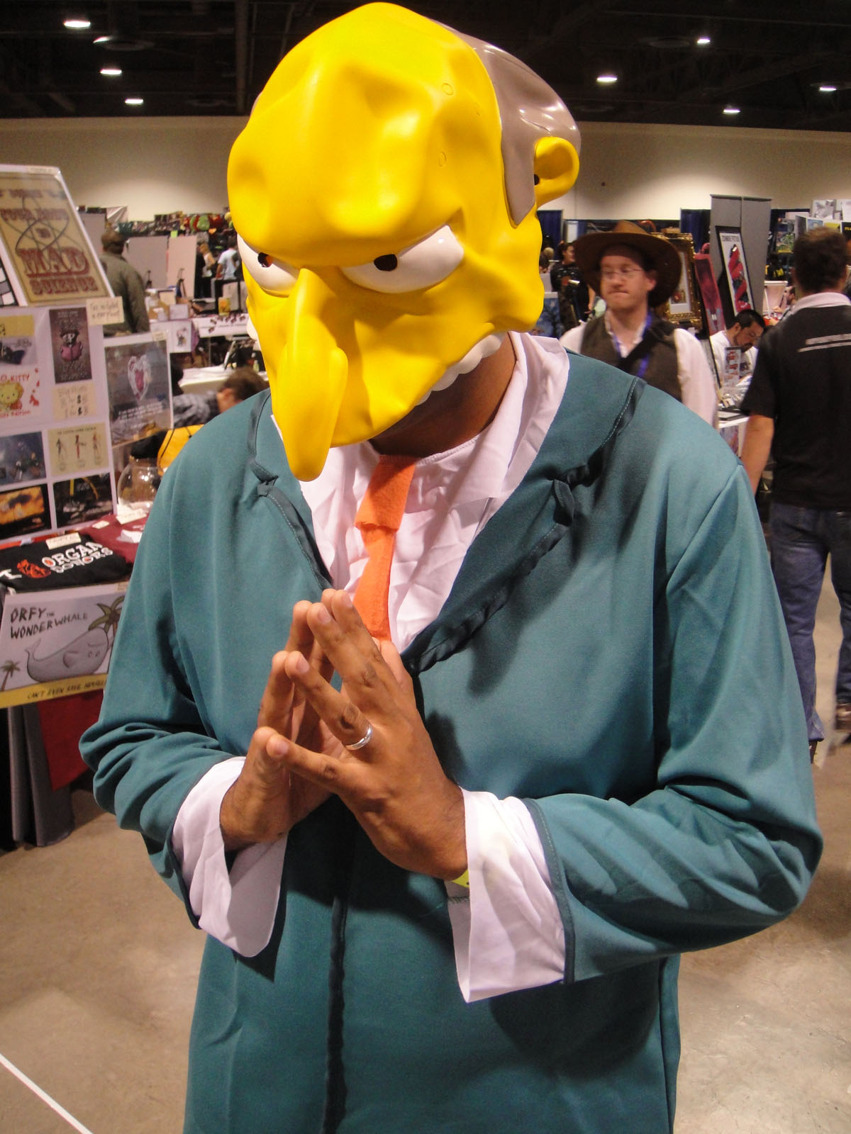 photo 2011 Pop Culture Geek taken by Doug Kline If you're interested in higher resolution versions of my images, contact me via my profile page.